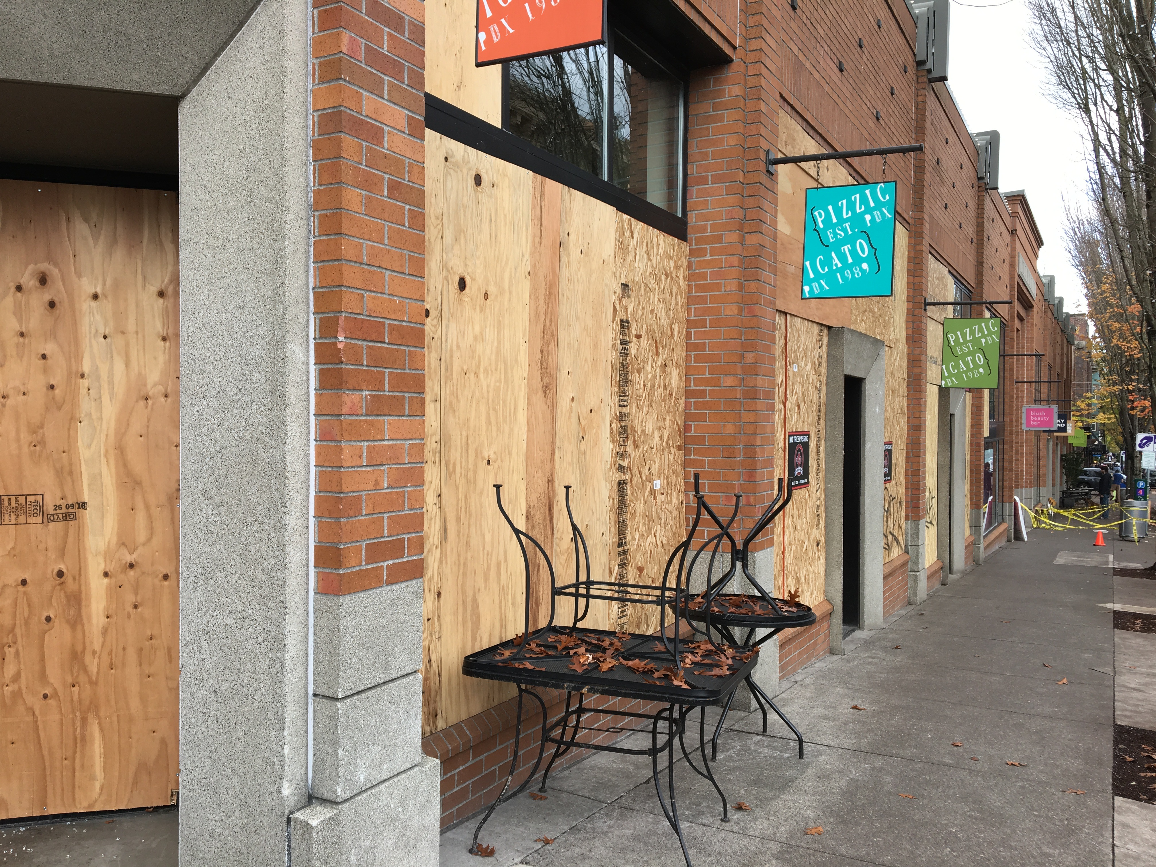 On Thursday, October 20, 2016, a natural gas pipeline was breached, causing an explosion that damaged several buildings in northwest Portland, Oregon. These photographs were taken over a week after on October 29, 2016, however the damage was still very visible and cleanup was still underway. Some buildings on nearby blocks were still usable and not badly damaged, however windows were broken and boarded up.